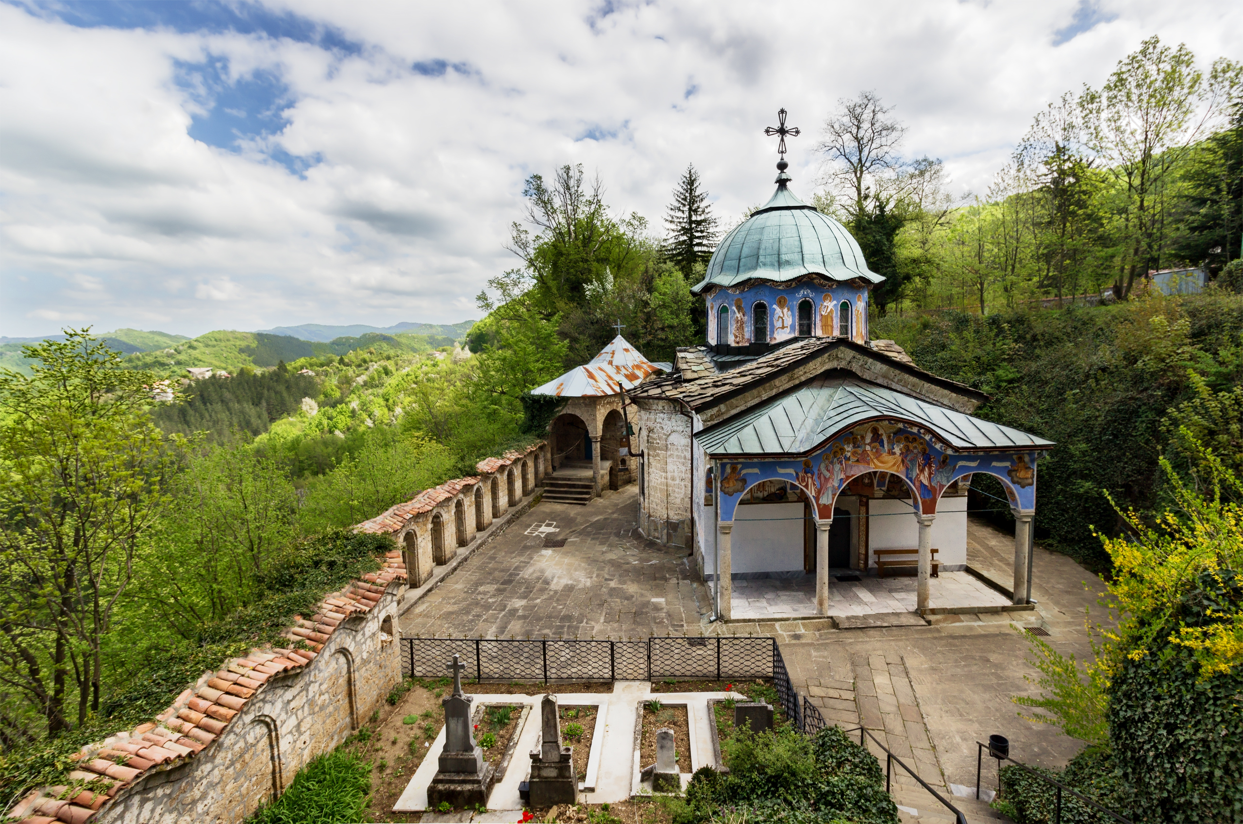 Sokolski monastery